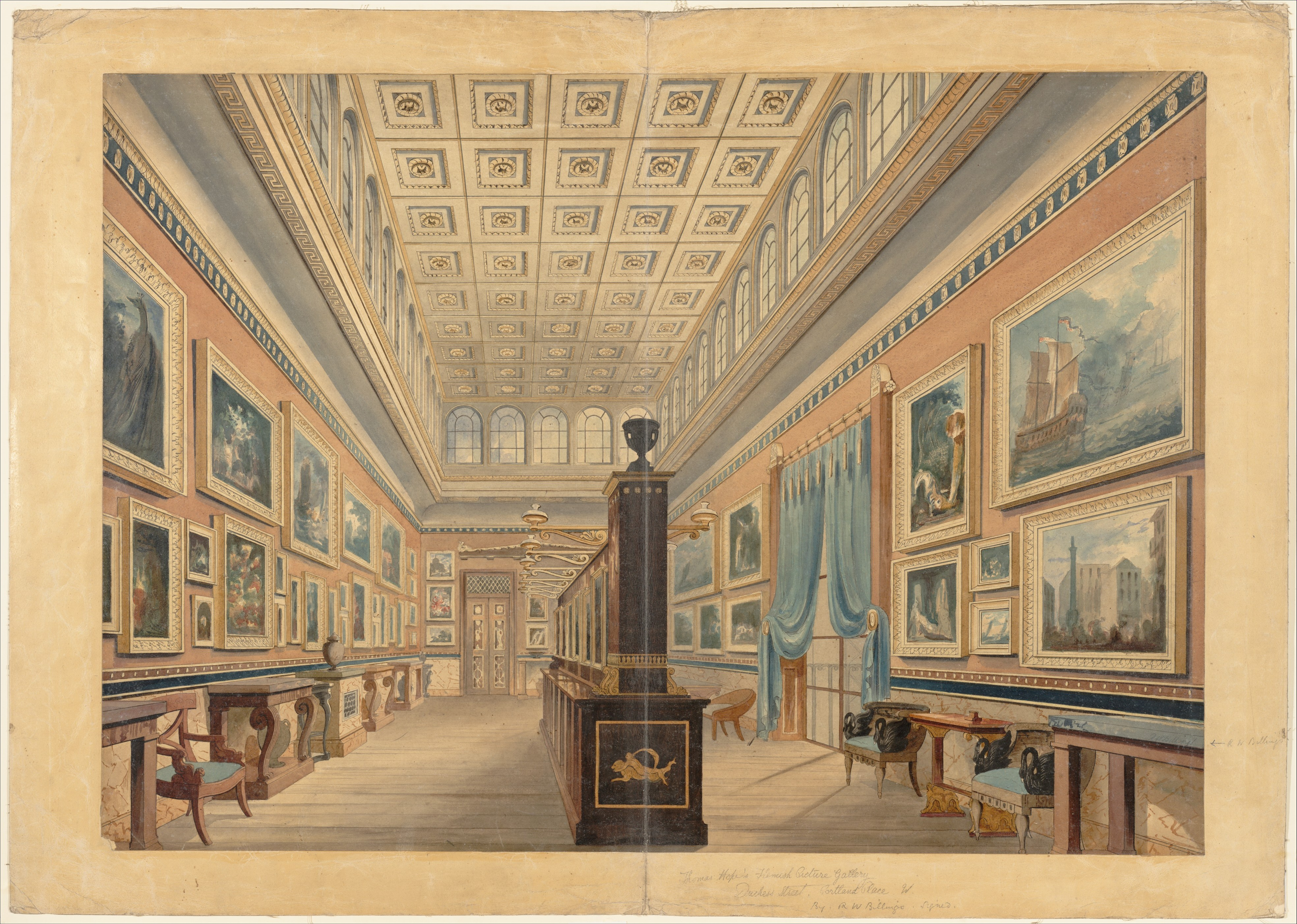 Drawing ; Ornament & Architecture; Ornament & Architecture